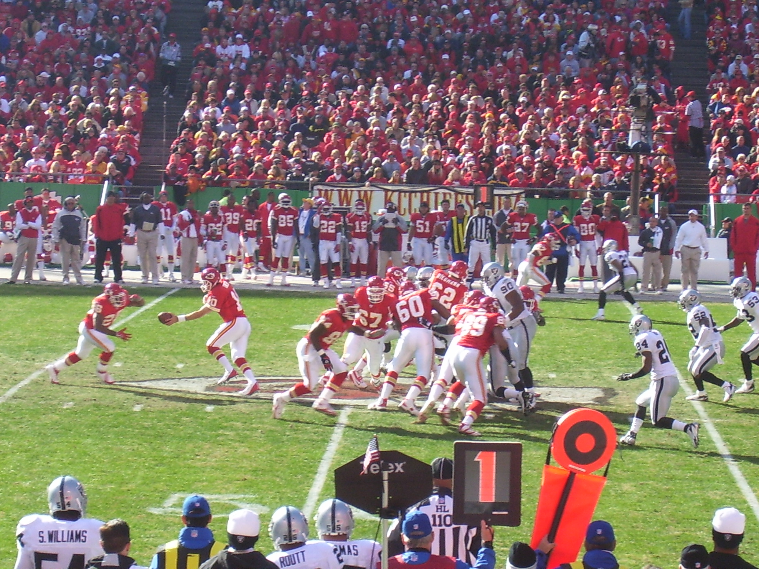 Chiefs vs. Raiders at Arrowhead Stadium, Kansas City, MO. Taken on 11 November 2006.